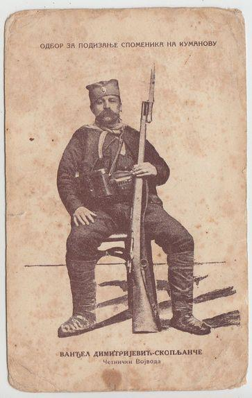 Vangel Skopljance